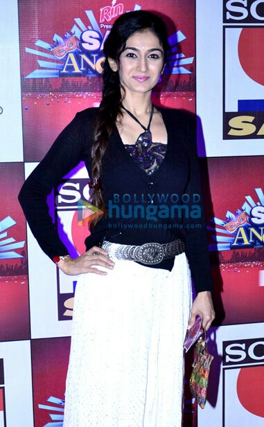 Neha Mehta at SAB Ke Anokhe Awards